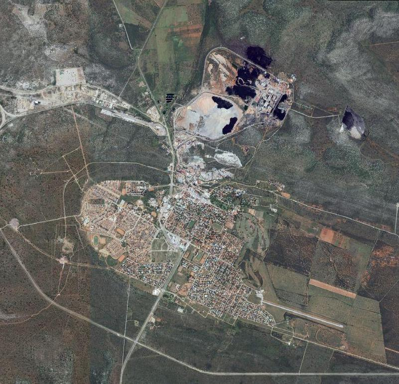 satellite picture of the city of Tsumeb, Namibia. visible the mines in the upper section of the image